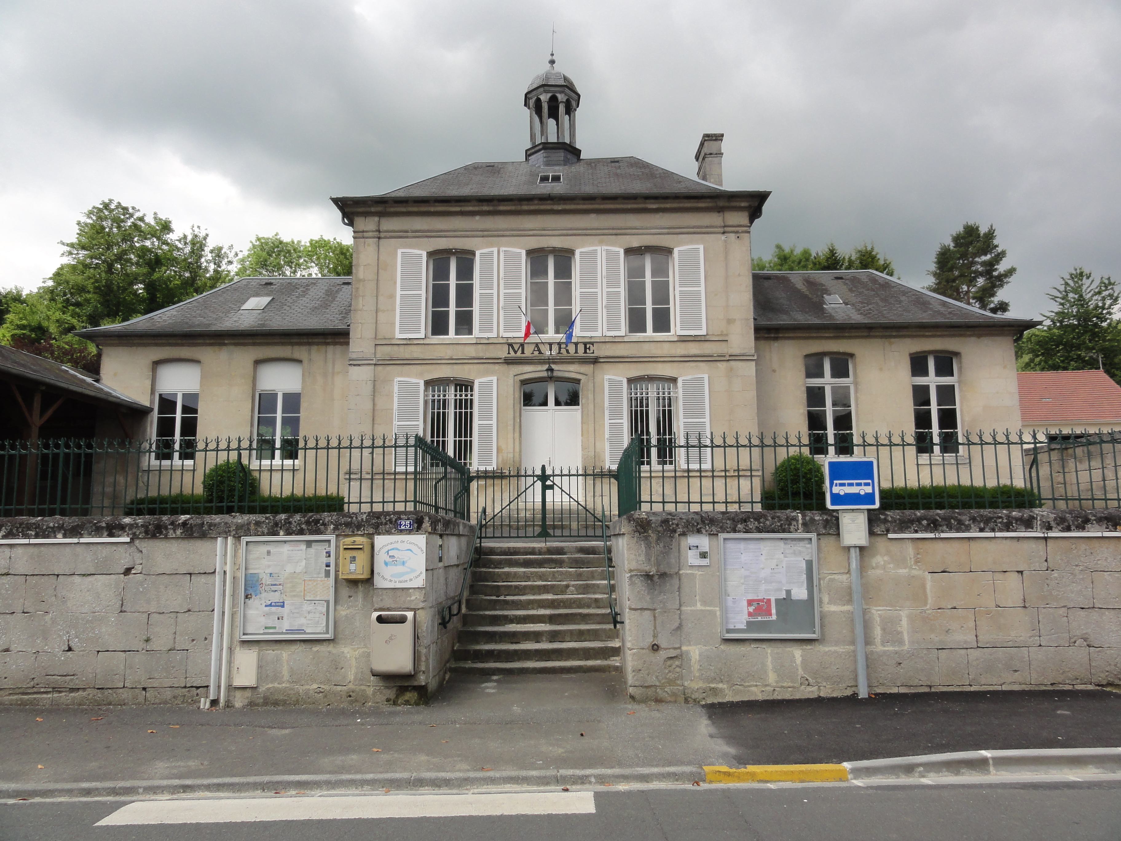 Laversine (Aisne) mairie